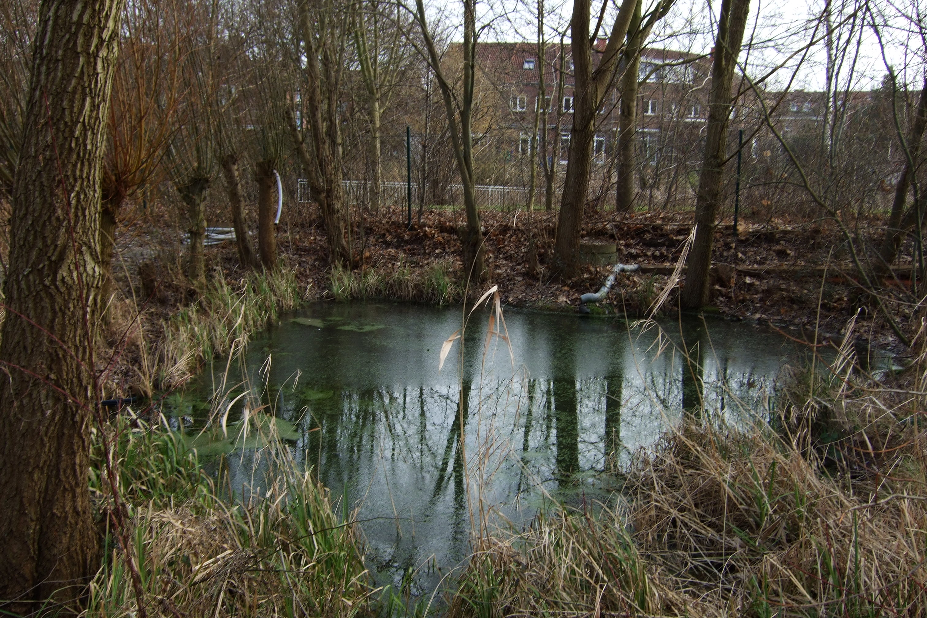 Photo: A. Schöpe (Jan. 2009)